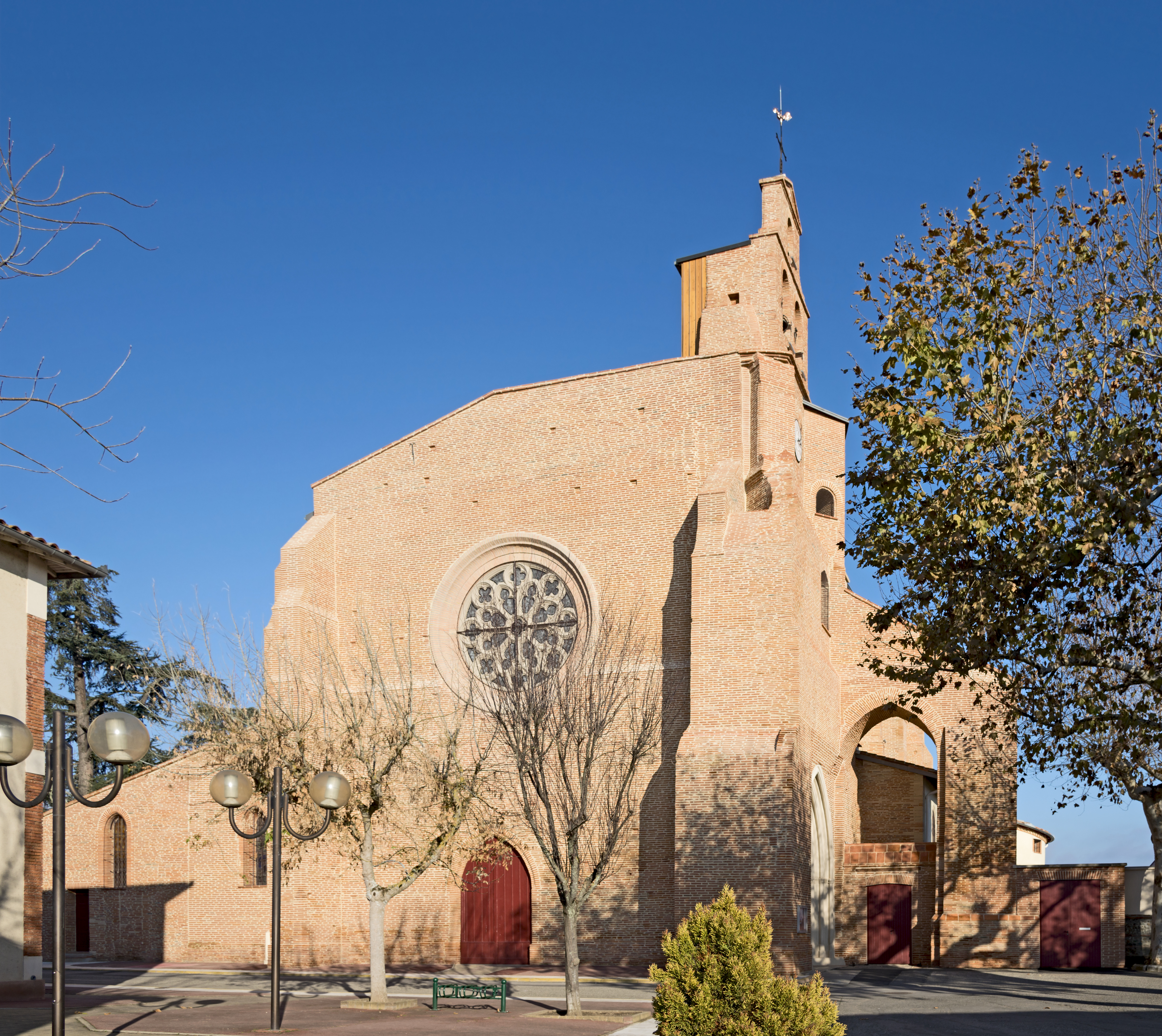 Saint-Jory, Haute-Garonne, France. Church of St. Georges (fifteenth century) - Facade.